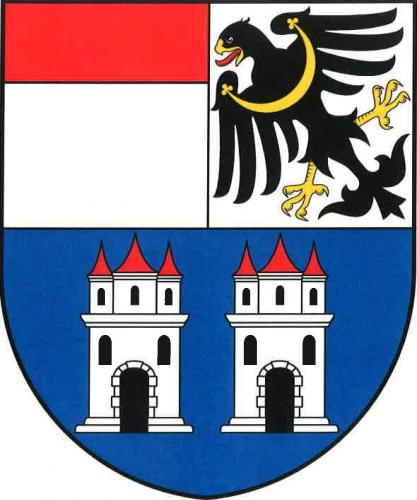 Coat of arms of Czech town Horšovský Týn